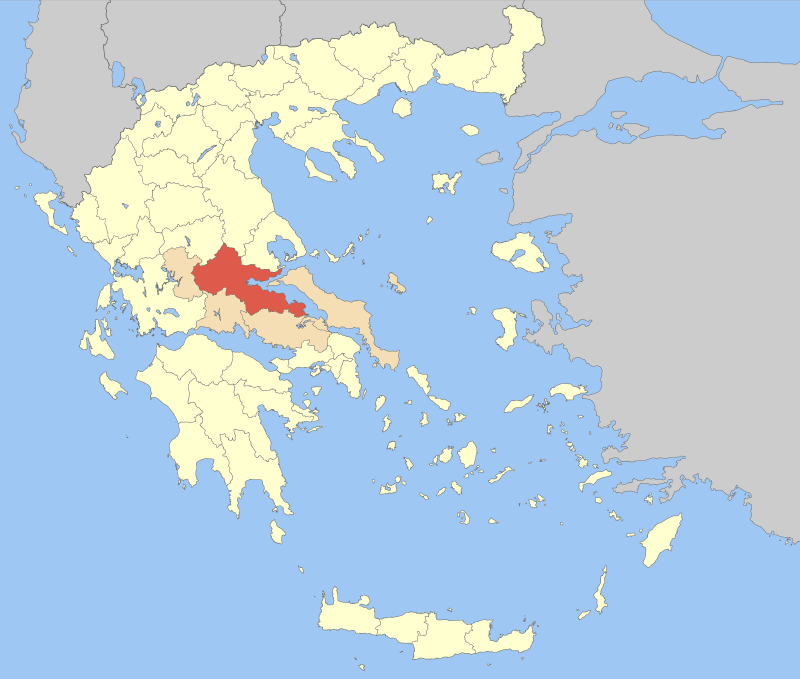 Locator map of Fthiotida (Phthiotis) prefecture (Νομός Φθιώτιδας) in Greece